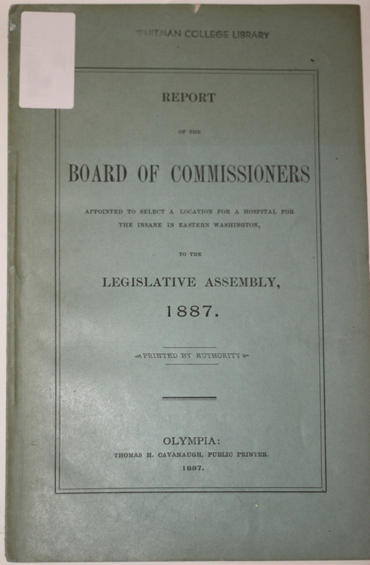 Board of Commissioners Report establishing Eastern State Hospital for the Insane